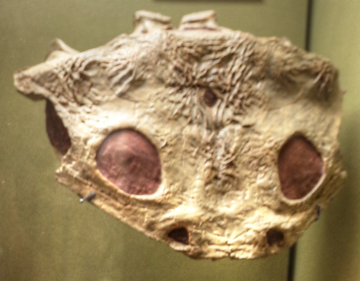 Skull of Hadrokkosaurus bradyi in the New Mexico Museum of Natural History and Science. Cropped version of File:Metoposaurs.jpg.